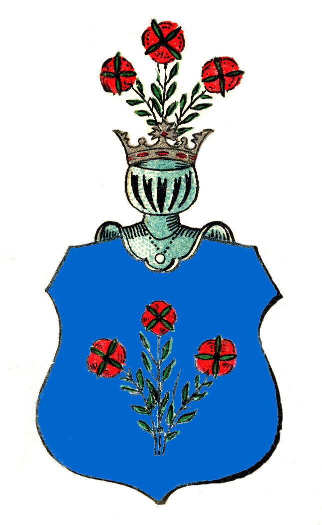 coat of arms